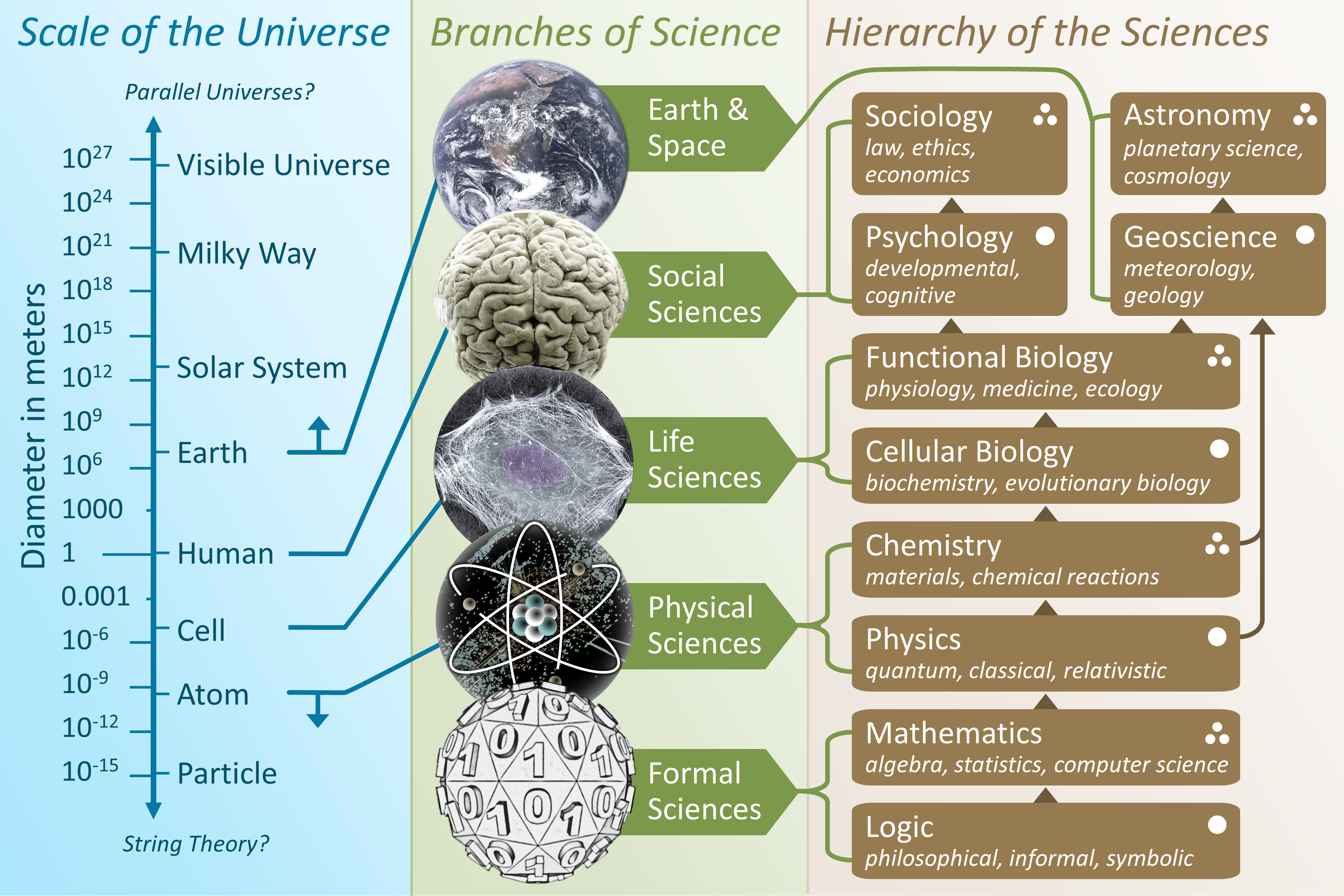 As an introduction to science, the Scale of the Universe is mapped to the Branches of Science and the Hierarchy of Science. The Scale of the Universe capture the average diameters of key systems. The scale needs to be cubed to make volume; it takes about 60 trillion atoms to make a human cell, 100 trillion cells to make a person, and 108 billion people have lived to build modern society. The hierarchy of the sciences captures major areas of study in science. The images capture the fundamental building block for the scientific branch. Math is built up from binary logic, physics is built on atomic scale physical laws, life science is built by cellular behavior calculated through natural selection, social science is built on the human brain, and earth and space science begins with our own planetary body.